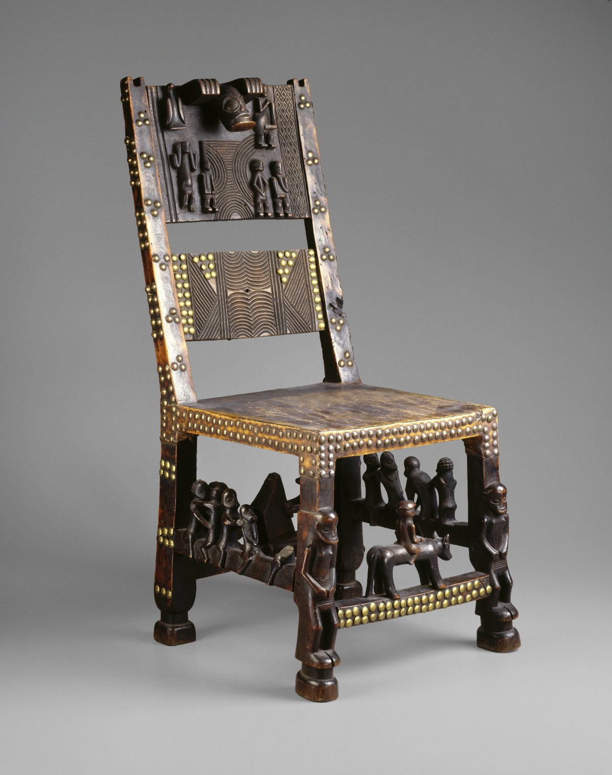 Most seats in sub-Saharan Africa are low stools with round or rectangular tops, carved from a single block of wood. As early as the sixteenth century, Portuguese traders and explorers introduced chairs with backs, leather seats, and decorative brass tacks, giving them as presents to chiefs, who used them as thrones. Chokwe artists soon began to produce similar chairs, adapting the style to preexisting sculptural conventions. Here, a cikungu mask, a symbol of chieftaincy, is represented on the back of the chair. Figures on the rungs and splats depict scenes of daily and ceremonial life.